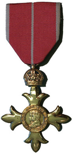 Officer of the Order of the British Empire